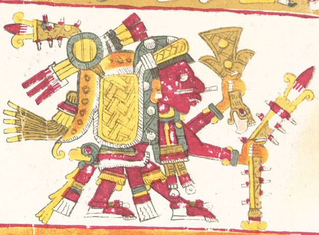 A drawing of Tlacotzontli, one of the deities described in the Codex Borgia